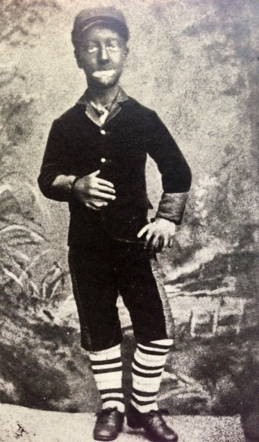 The music hall comedian and dancer Little Tich on stage during his early career as a blackface performer in the 1880s.